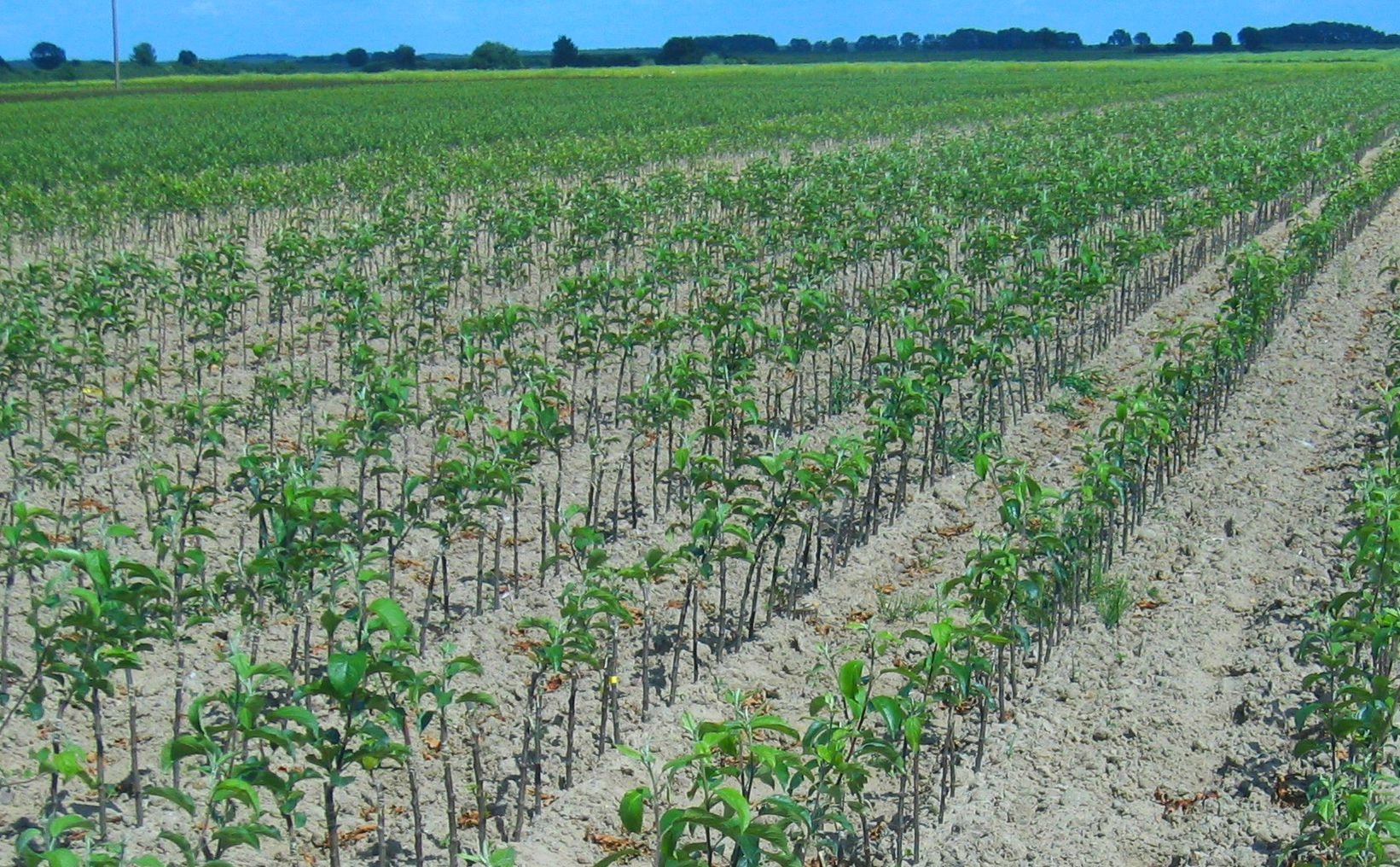 Apples grafted on M9 in nursery during summer